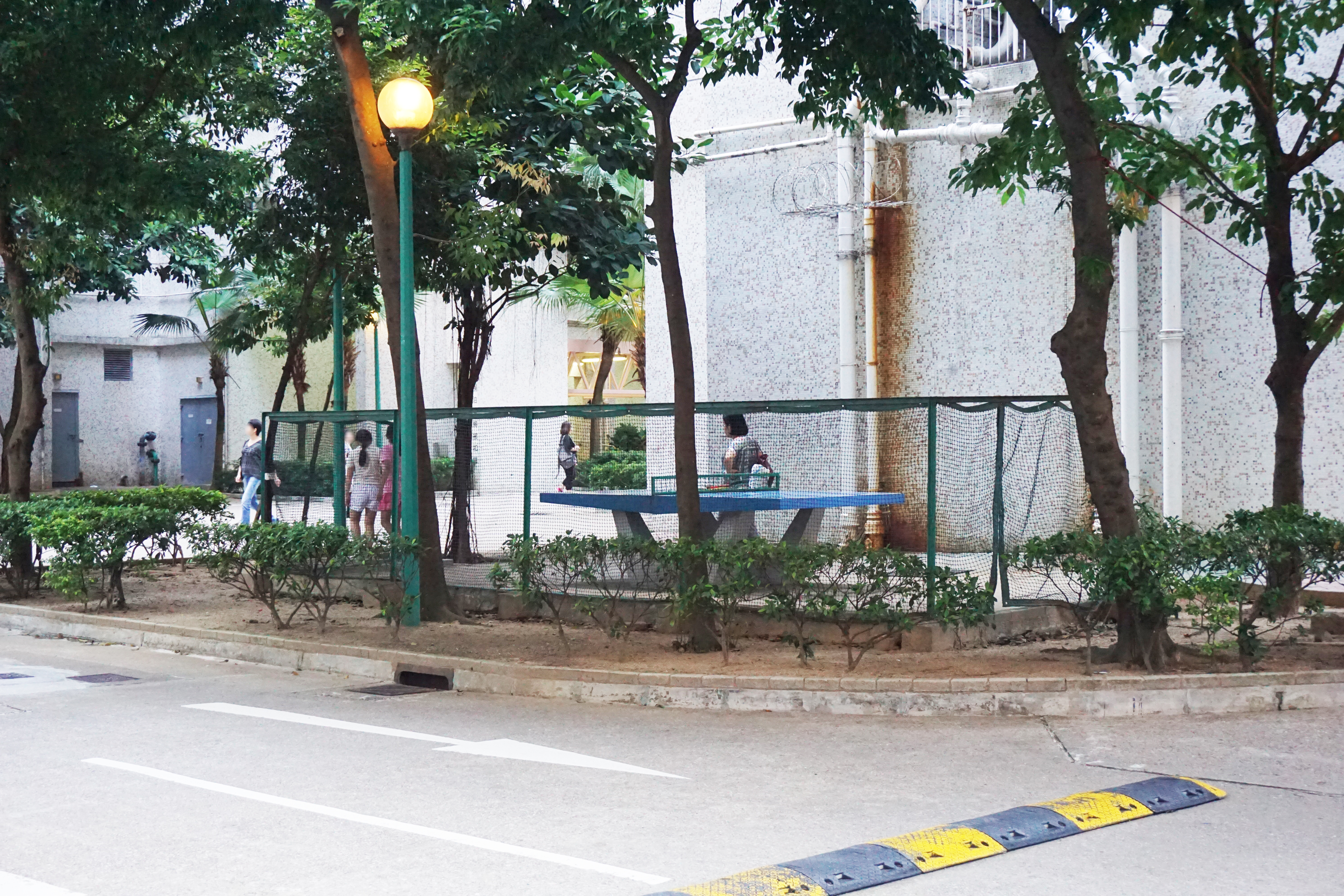 Charming Garden in Mong Kok, Hong Kong.